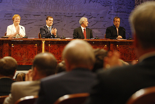 KHANTY-MANSIYSK. At the ceremony marking the opening of the World Congress of Finno-Ugric Peoples.